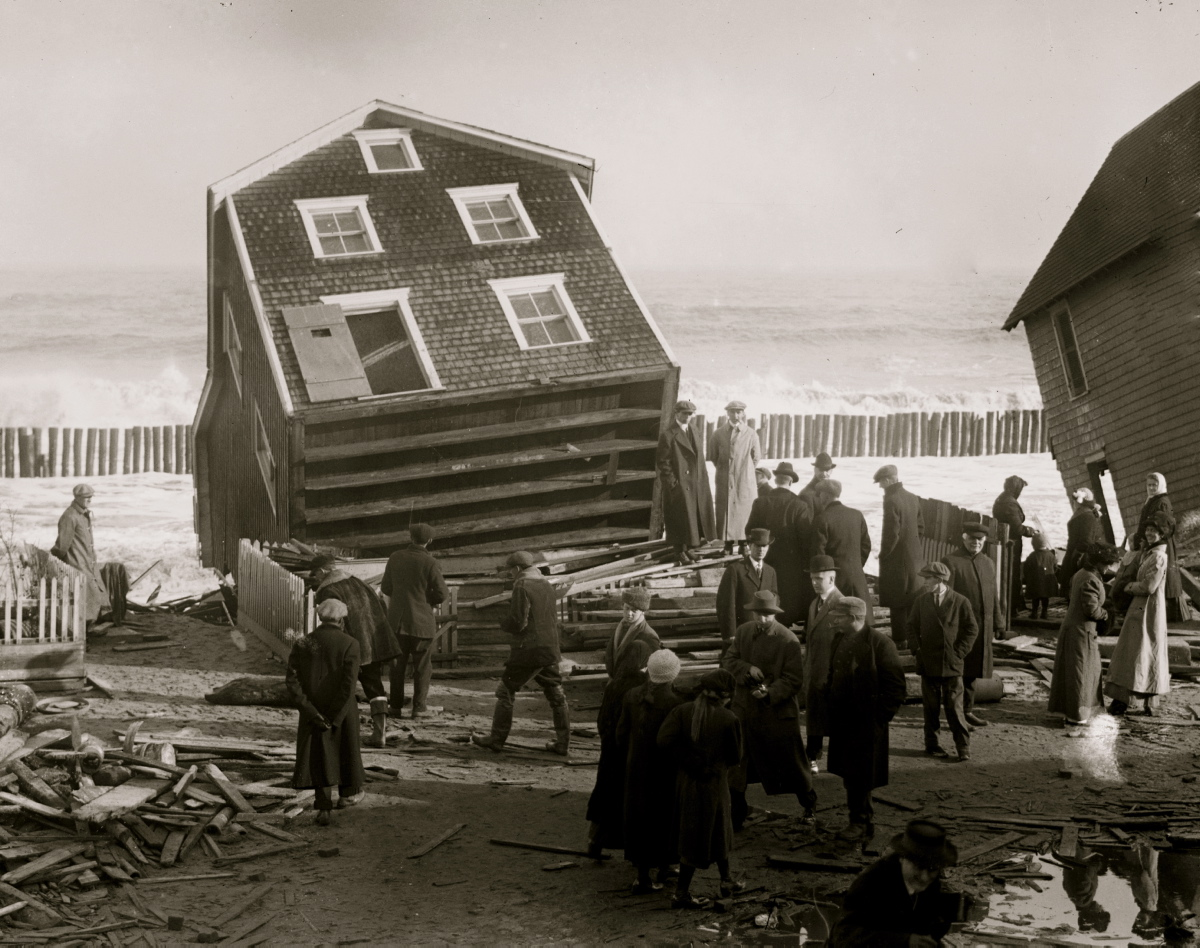 VAGABOND HURRICANE, 1903 By Sept. 17, the Vagabond Hurricane weakened as it moved over Pennsylvania and New York. The hurricane killed around 35 people as it left millions worth in damage, particularly near the coastline. Dozens of buildings were completely destroyed, like this home in Sea Bright, New Jersey on Sept. 16, 1903.